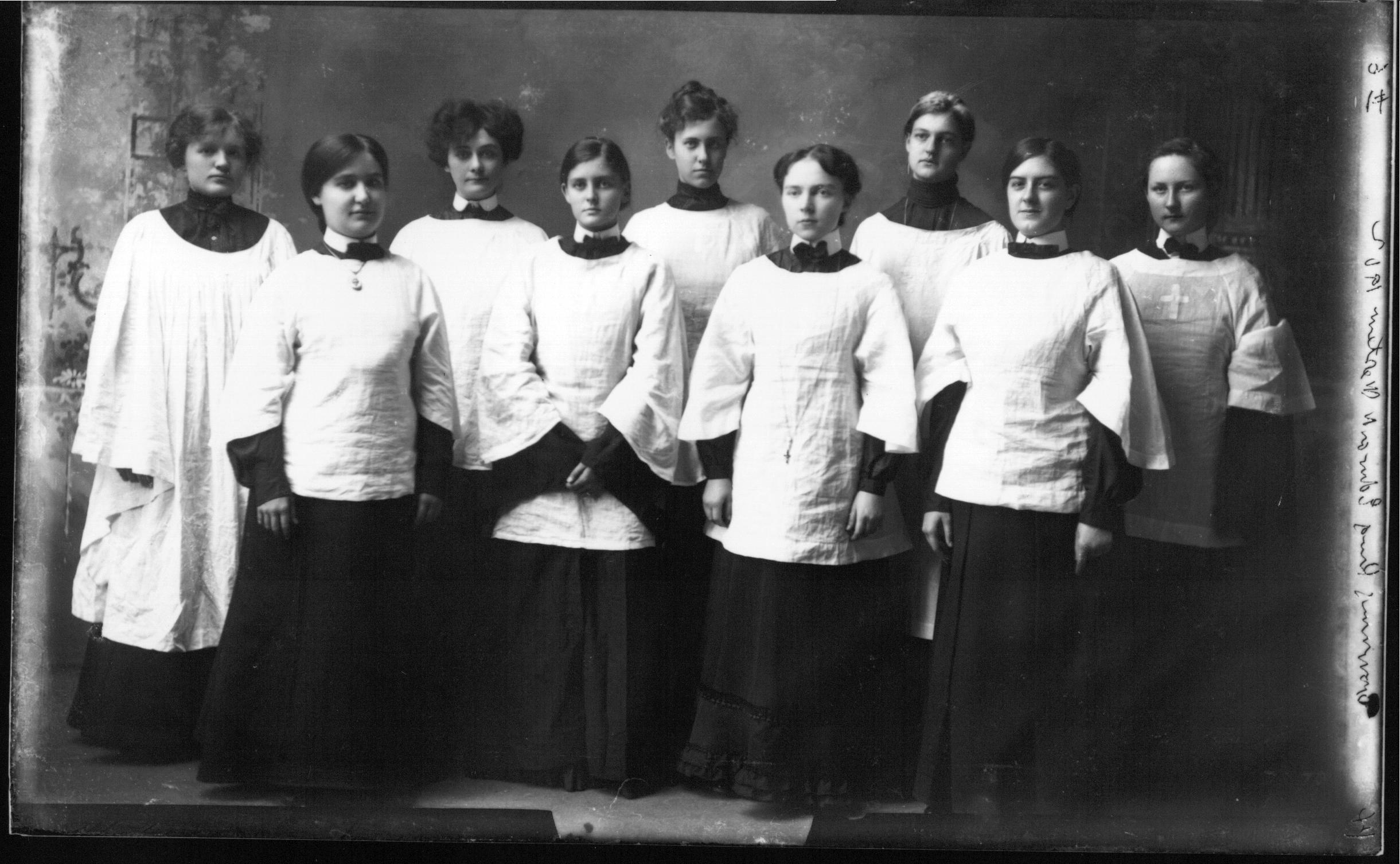 Persistent URL: Subject (TGM): Women's education; Choirs (Music); Group portraits; Location: Oxford, Ohio Western College. [ '----- King Edward']